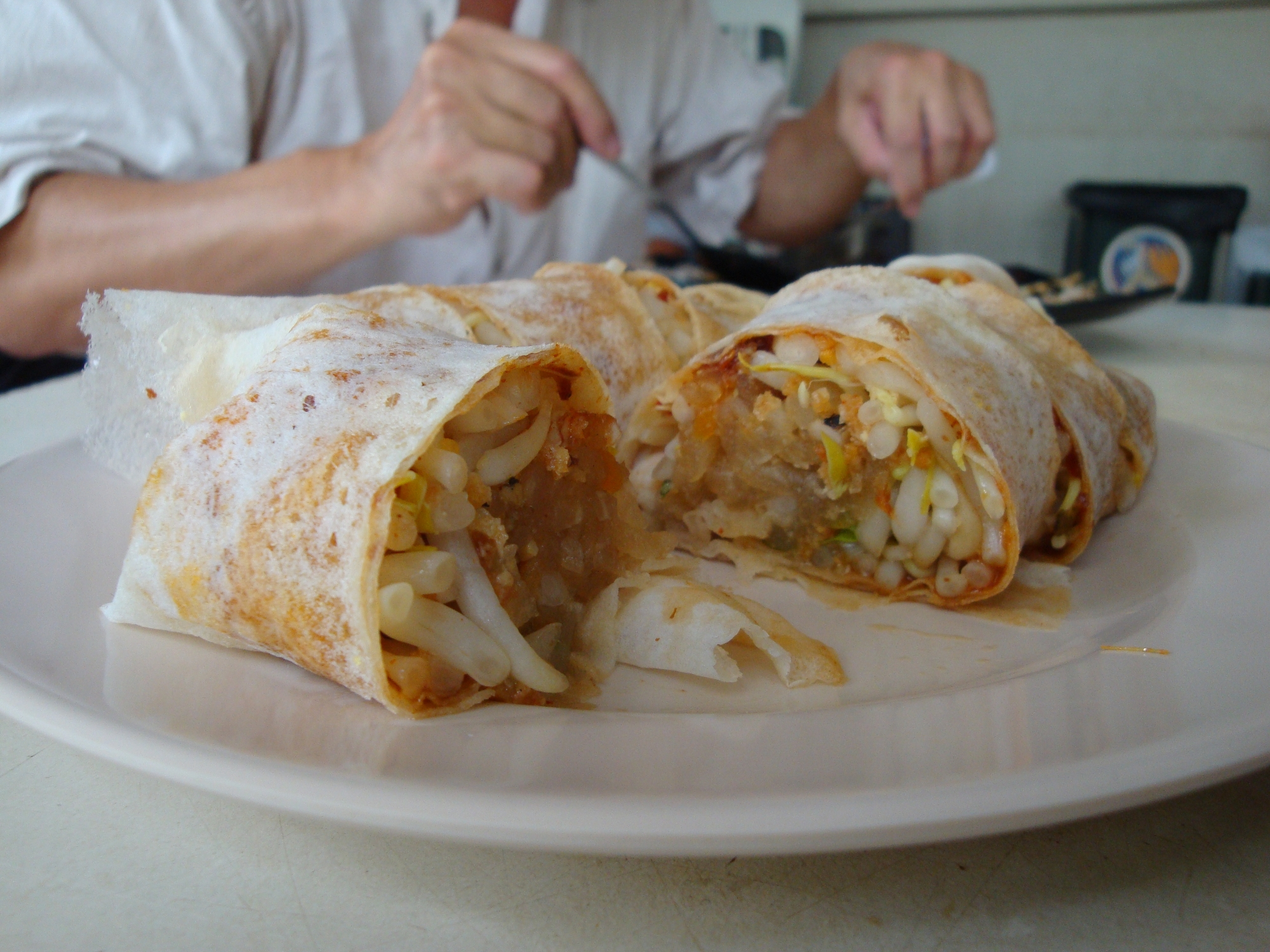 Lunbiah or popiah, a Chinese crepe wrapping various ingredients, from the Queenstown popiah shop that used to be at the Margaret Drive Hawker Centre.